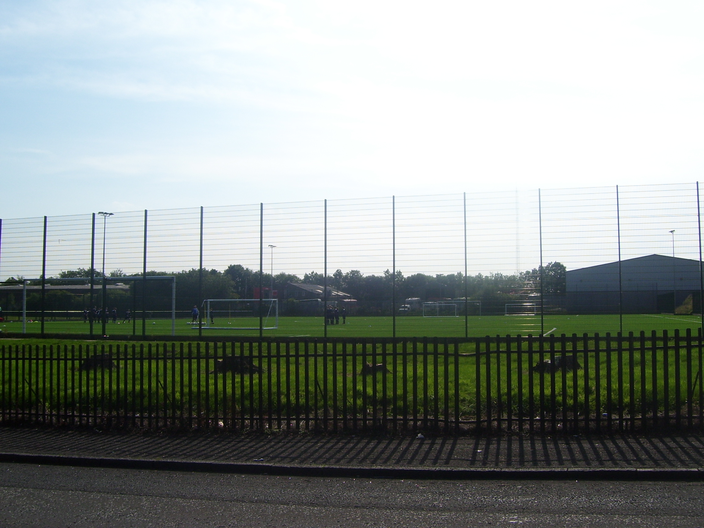 Football pitch at Briadhurst High School